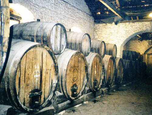 Wine barrel Achaia Clauss (Greece)